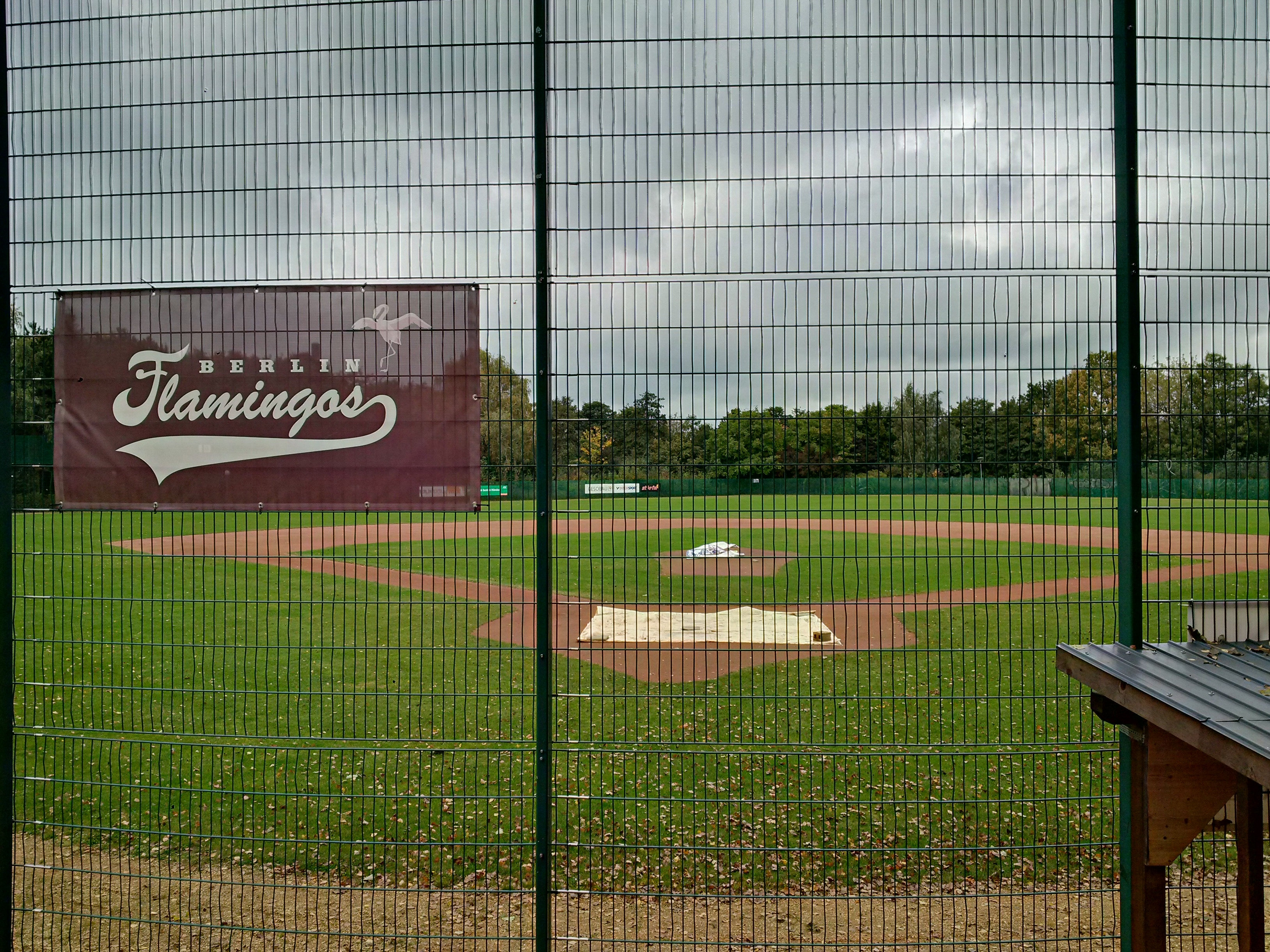 The Flamingo Park is the stadium of the Berlin Flamingos, a baseball team from Berlin-Reinickendorf.